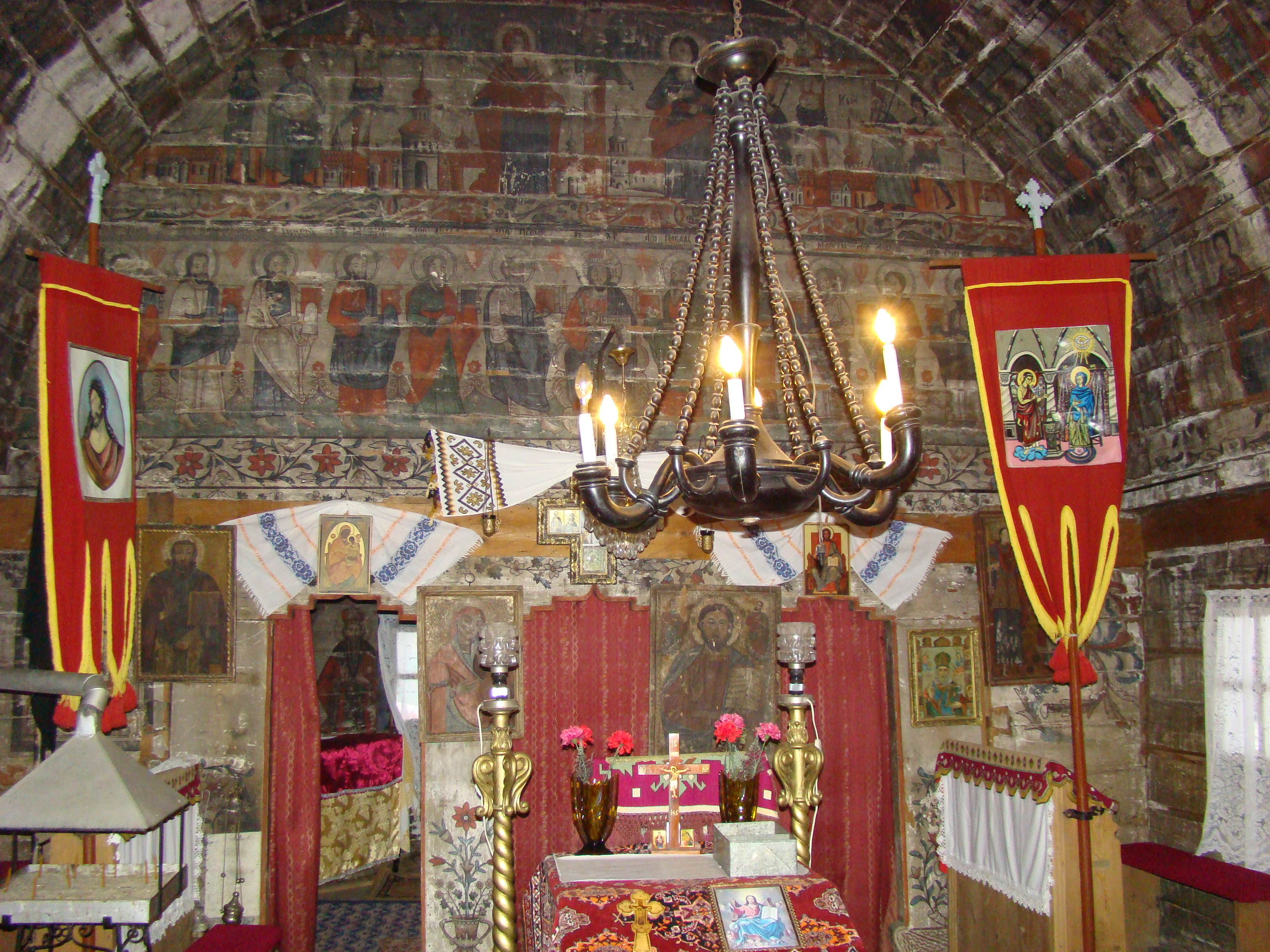 Wooden church in Aghireșu, Cluj county, Romania